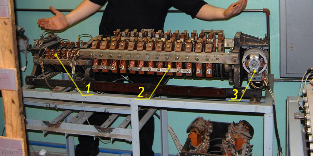 Main traction rheostat controller EKG-17i of subway wagon Ezh3 series, lab of the Moscow Rail Transport College. 1 — control contacts; 2 — main contactors, 3 — servomotor